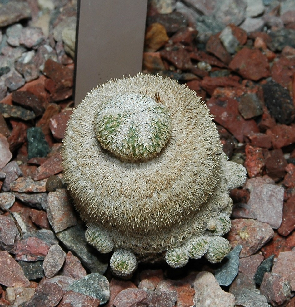 Epithelantha micromeris, Uppsala botanical garden